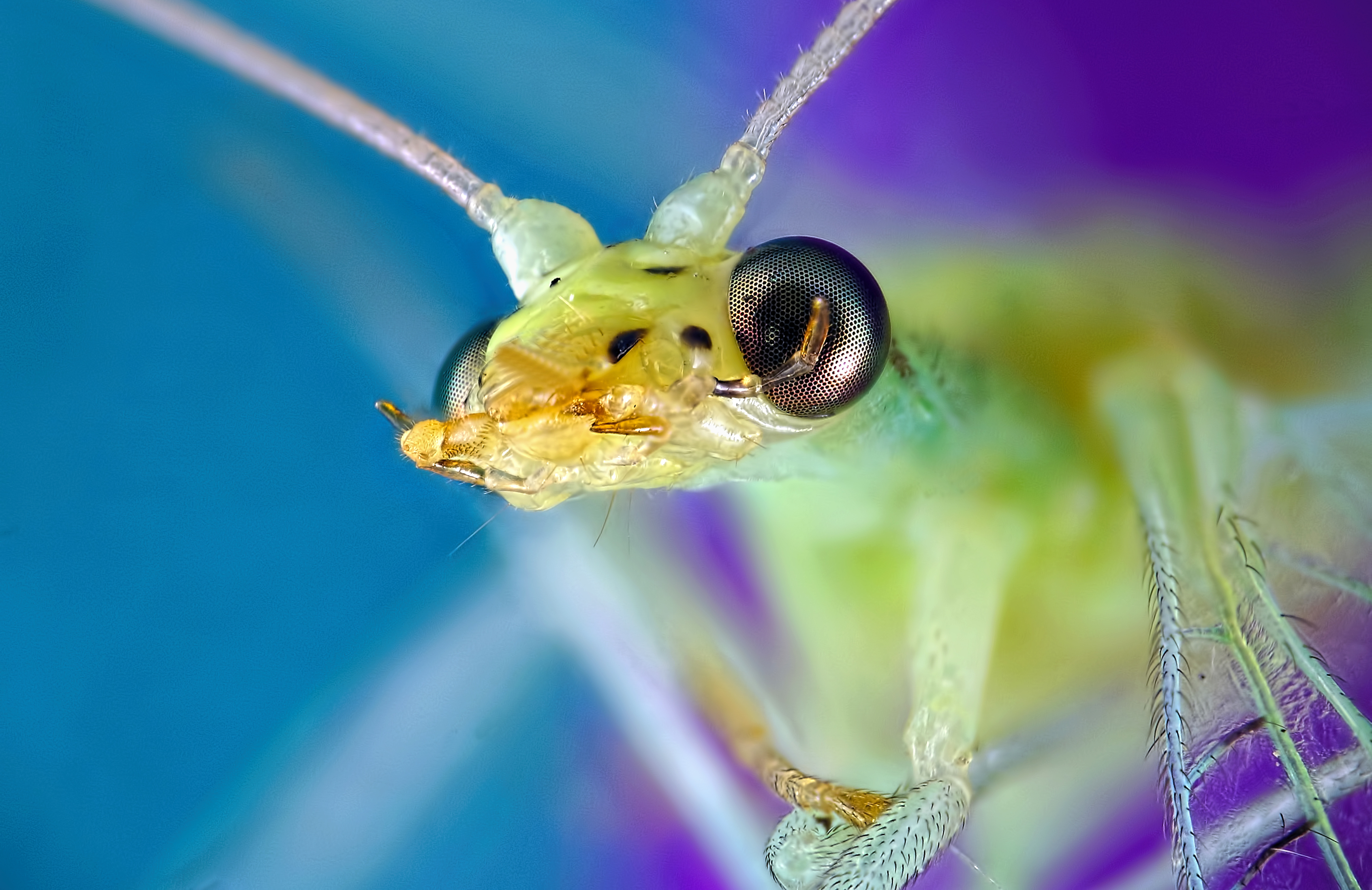 Portrait of the golden-eyed (stacking 30 frames)